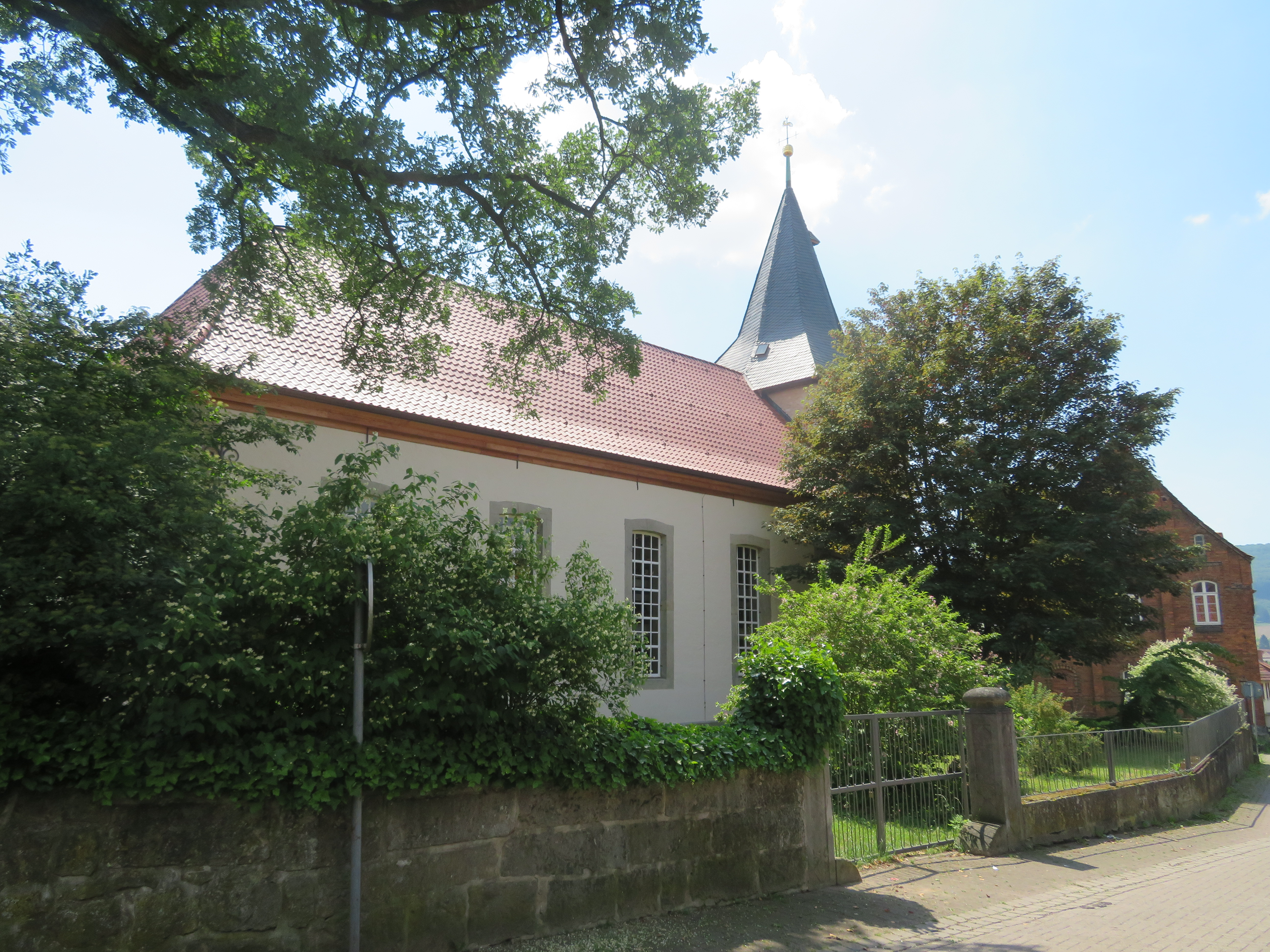 Protestant Church Saint Georg, Freden (Leine), Lower Saxony, Germany